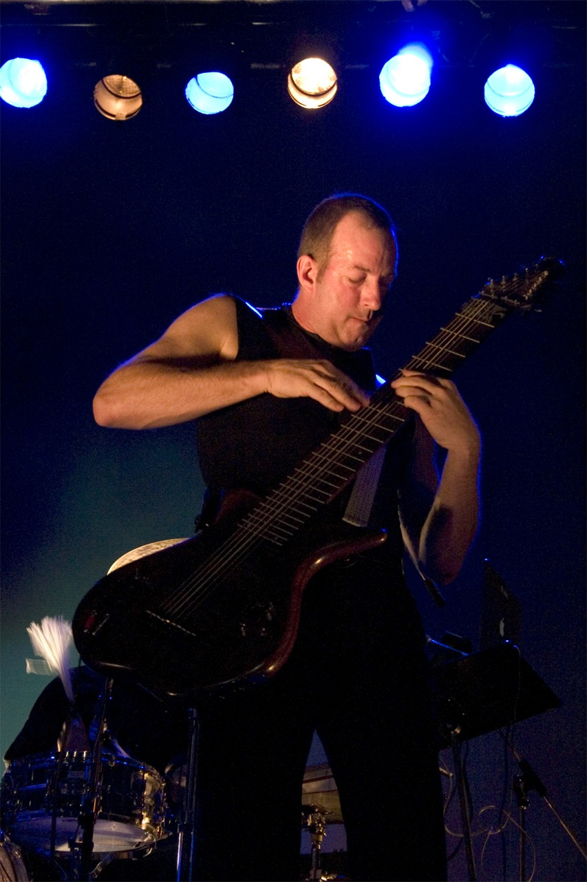 Trey Gunn former member of King Crimson